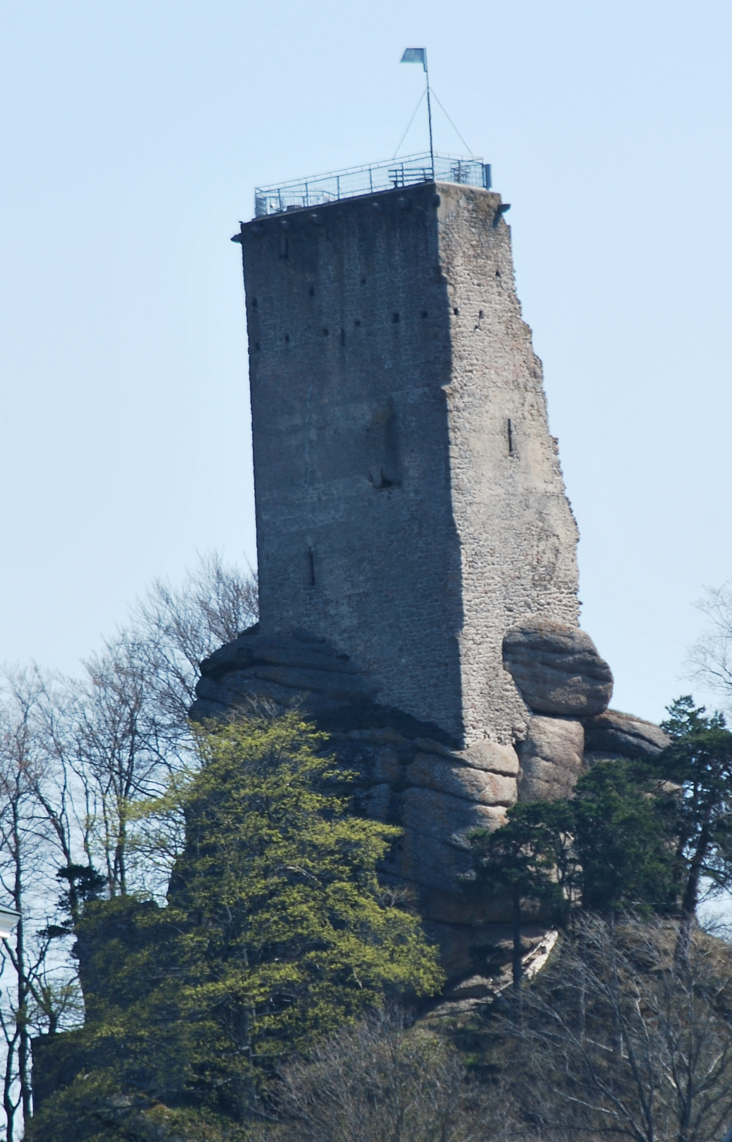 Burg Arbesbach from W